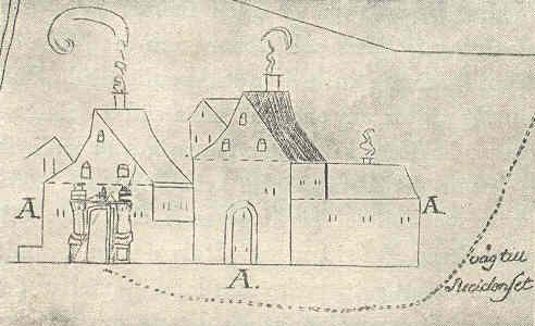 Detail on a map from the 1750s showing Korsholm castle.